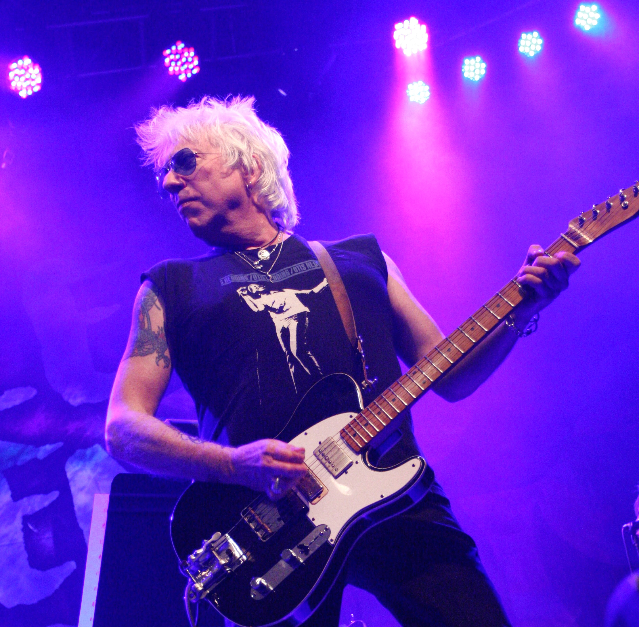 Ricky Byrd playing guitar live